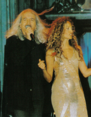 Anna Vissi and Nikos Karvelas live at "Asteria" in Athens, Greece.